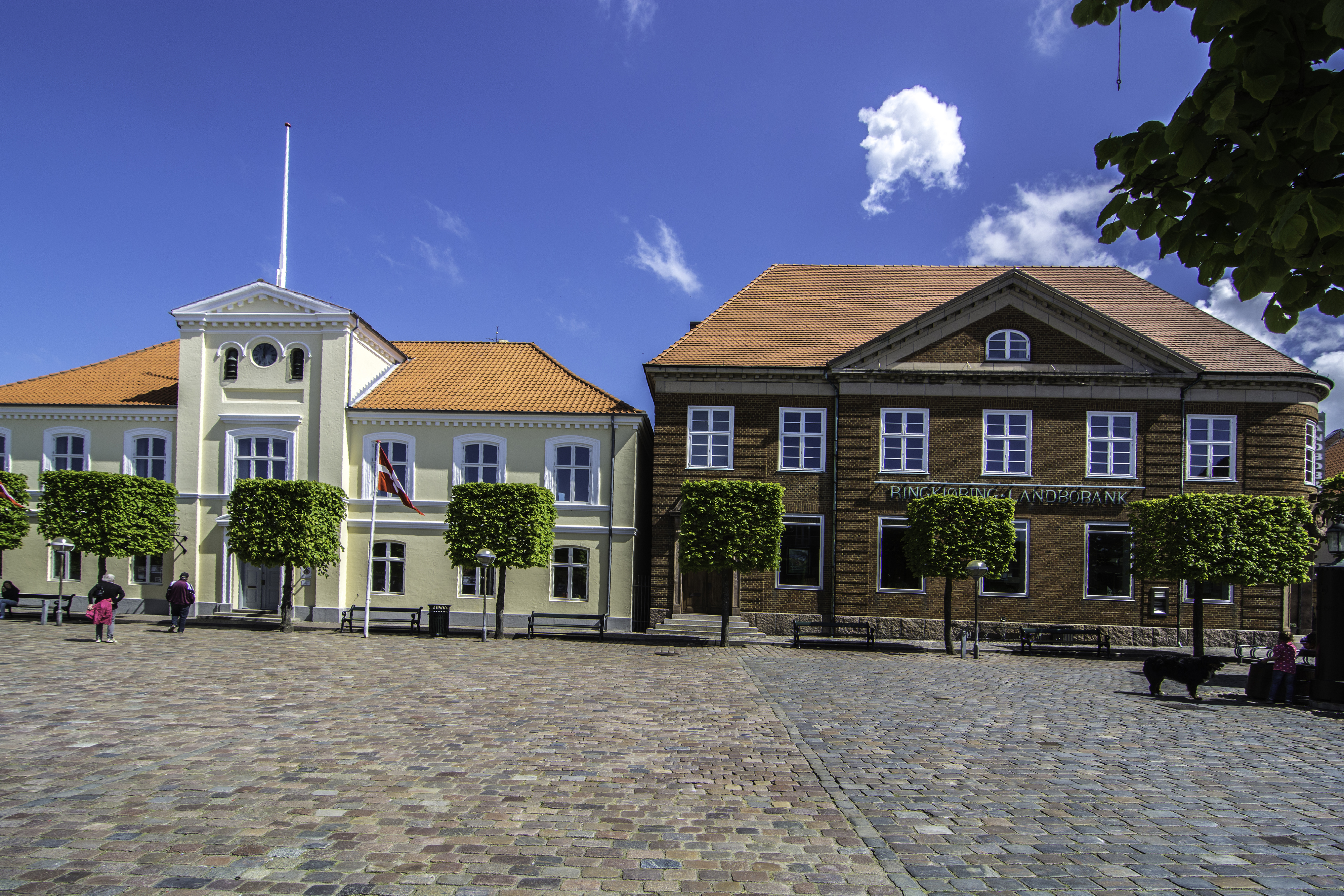 The head office of Ringkjøbing Landbobank seen from Torvet in Ringkøbing